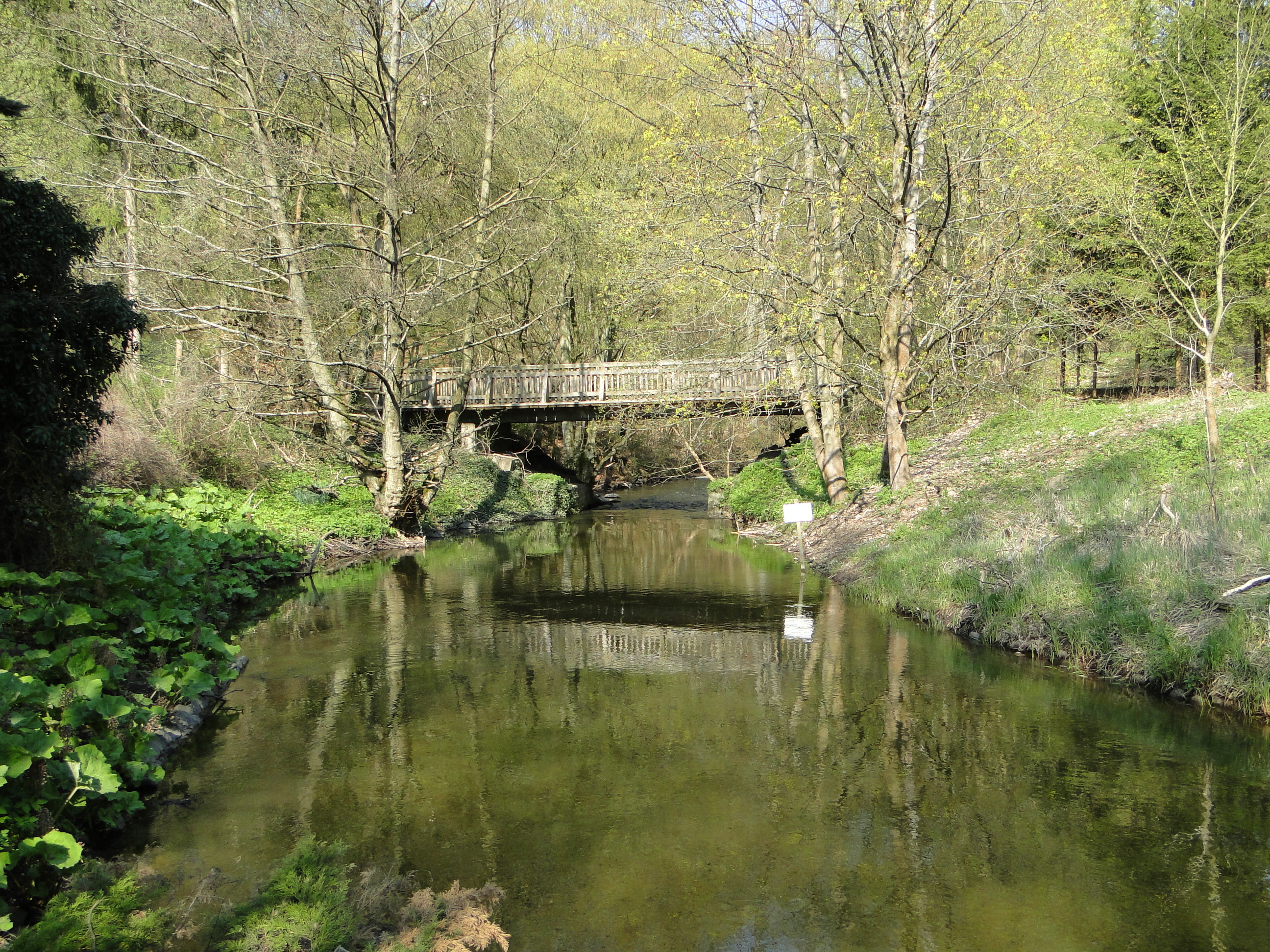 Mildenitz at old watermill in Kläden, district Parchim, Mecklenburg-Vorpommern, Germany